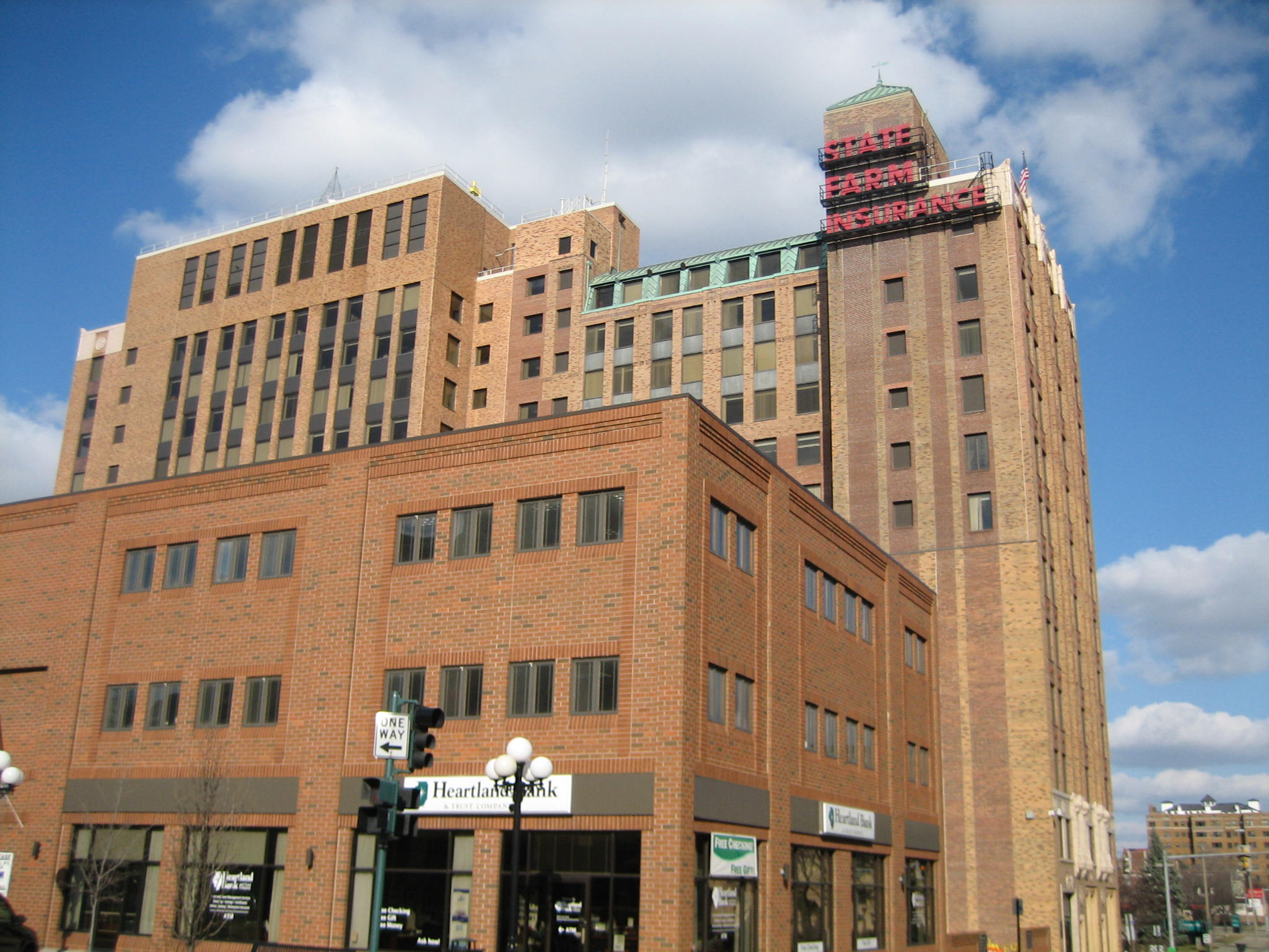 State Farm Insurance Building ("Fire Building"), Downtown Bloomington, Illinois. Bloomington Central Business District, National Register of Historic Places.